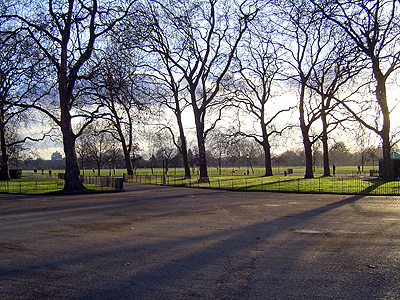 Click here to see where this photo was taken. By courtesy of BeeLoop SL - The Mapware & Mobility Solutions Company.